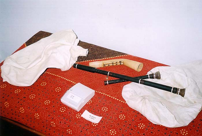 Gaida in Labyrinth Musical Workshop, Choudetsi, Crete